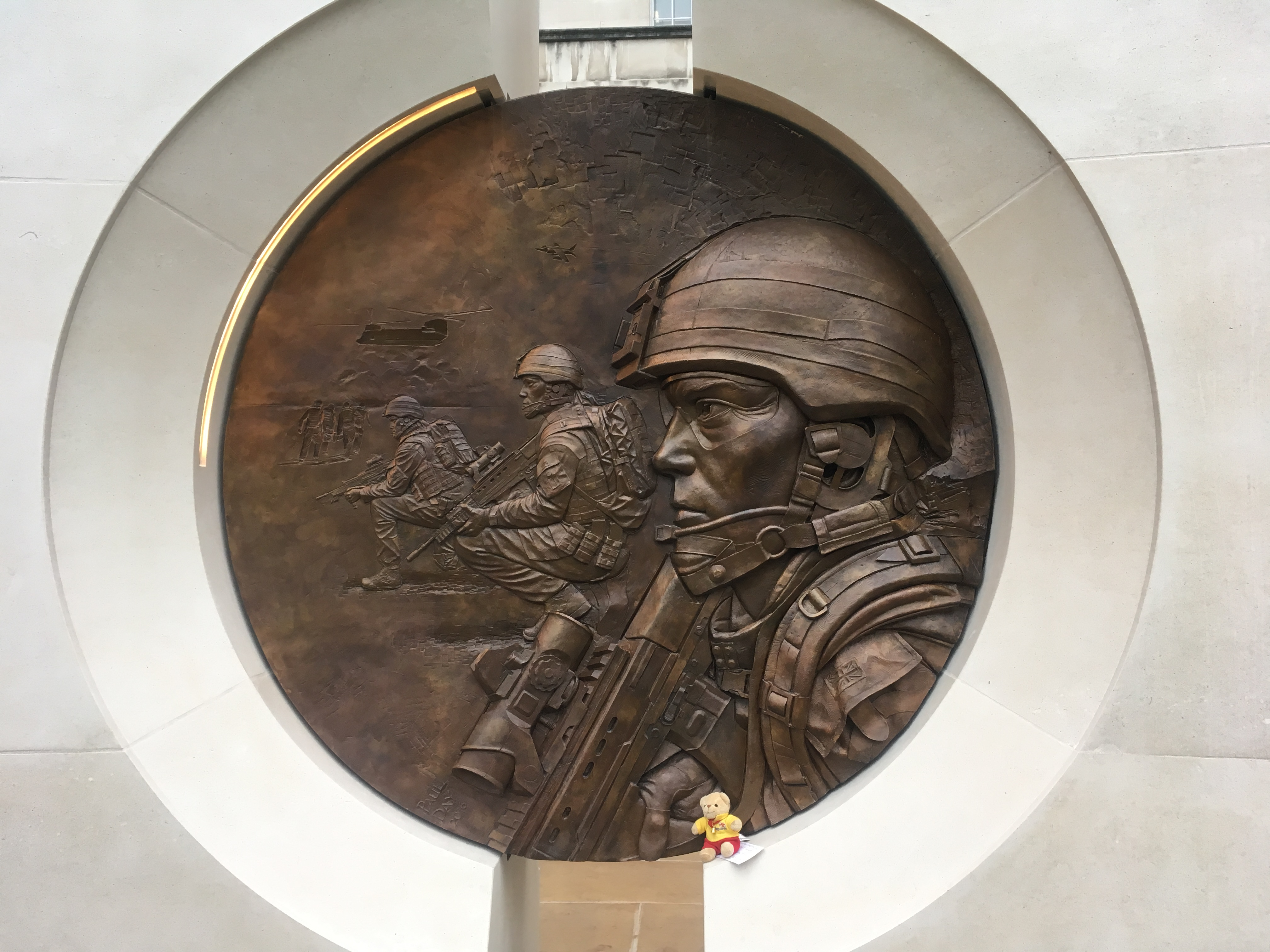 The Iraq and Afghanistan Memorial tondo.